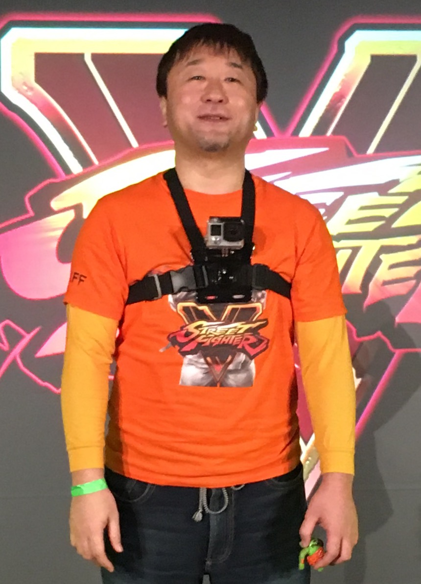 Yoshinori Ono at the „Street Fighter V Launch Event“ in Hamburg, Germany.